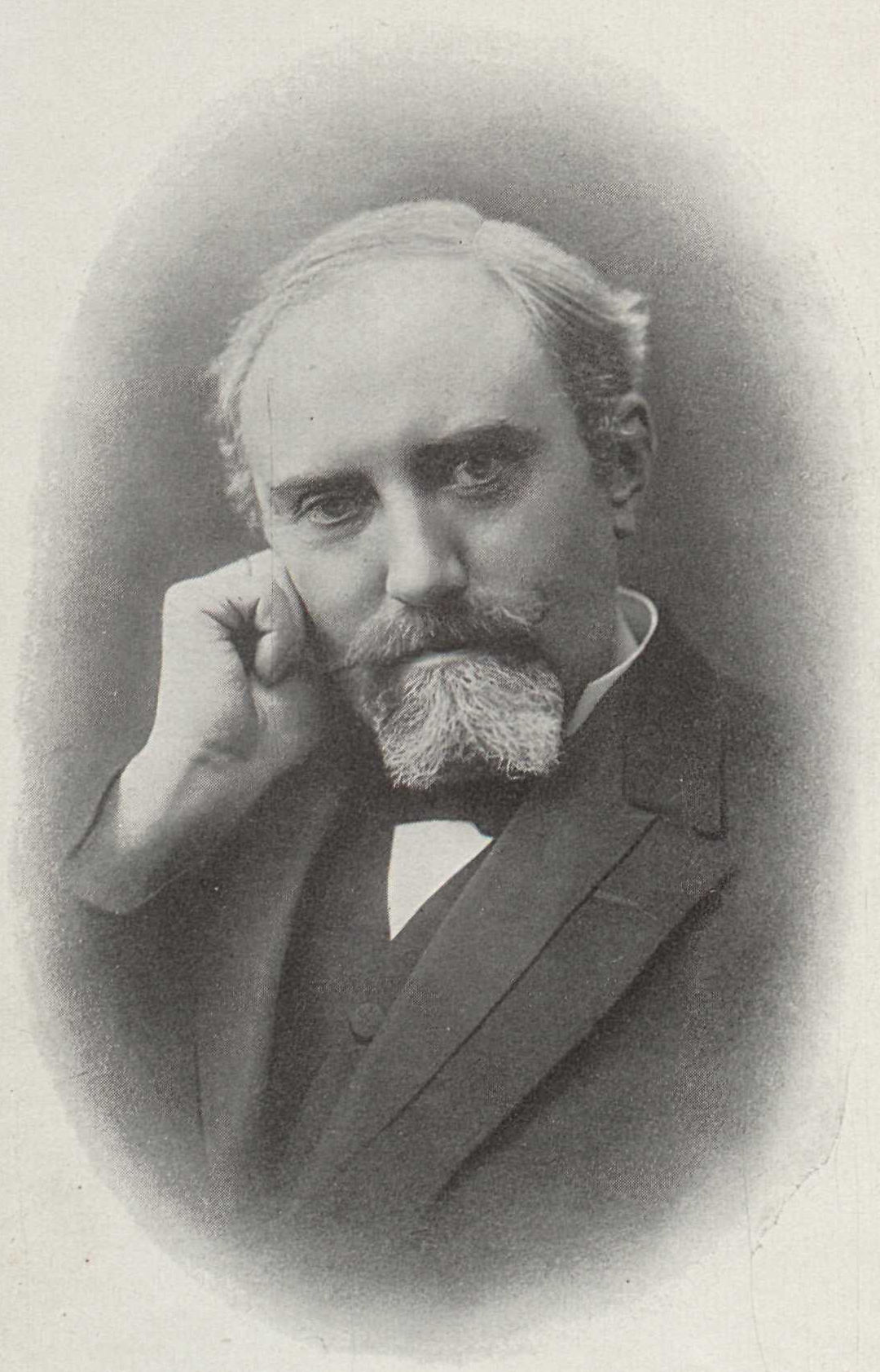 Haraldur Níelsson 1922